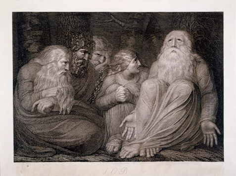 from William Blake's Illustrations of the Book of Job